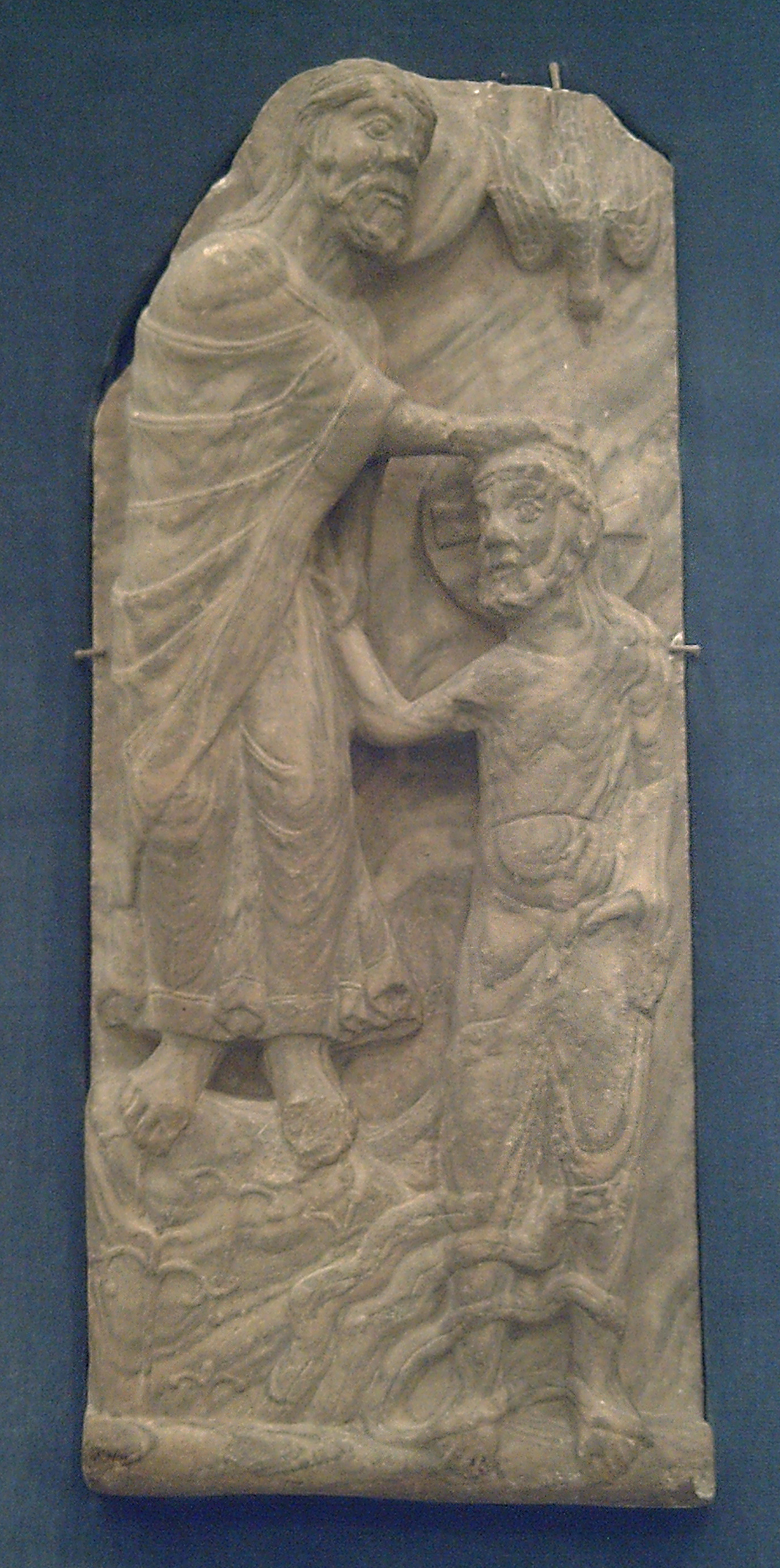 Romanesque relief showing the Baptism of Christ.